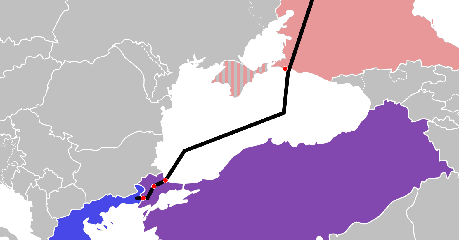 Turkish Stream map